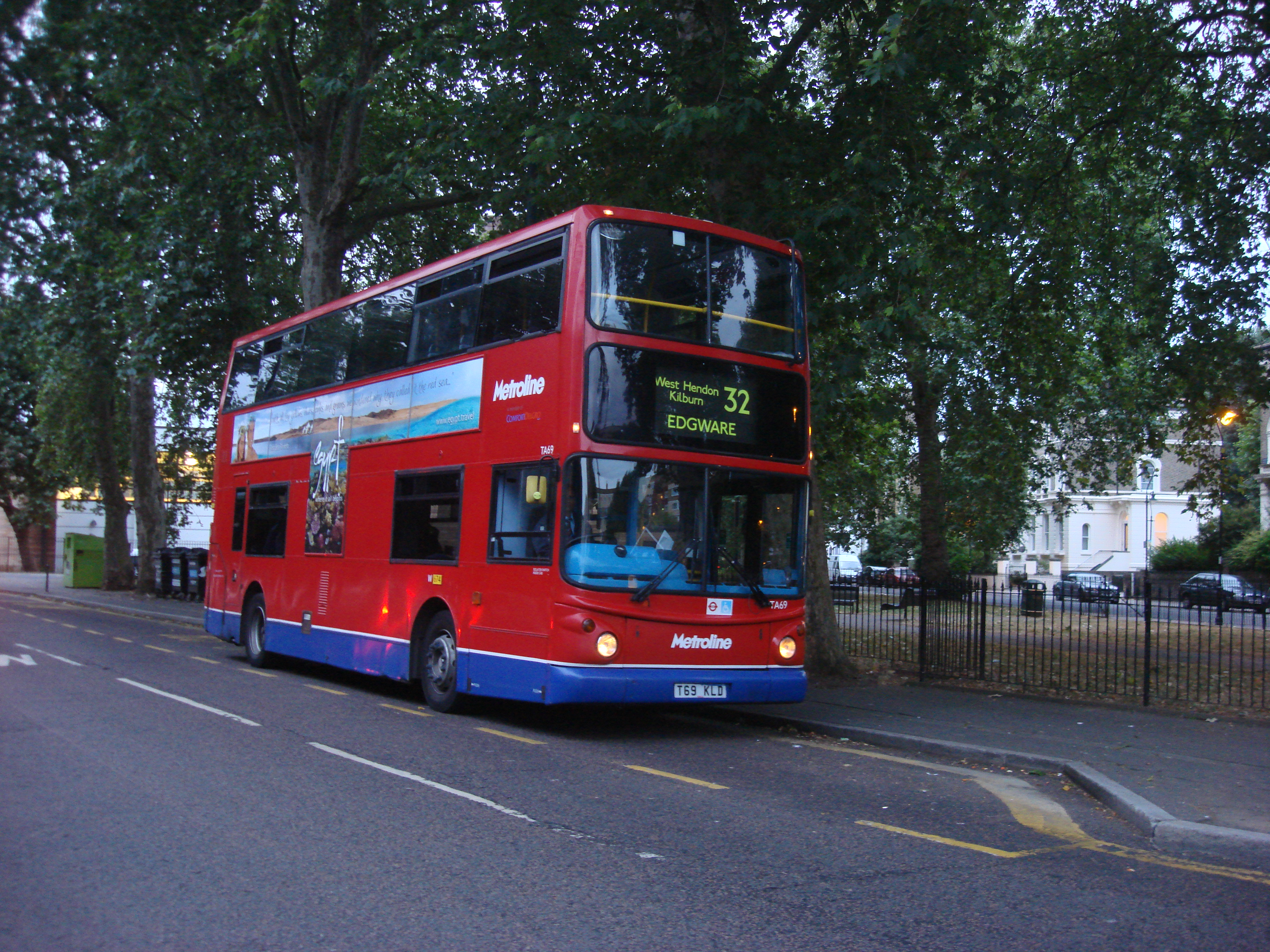 A London Bus .